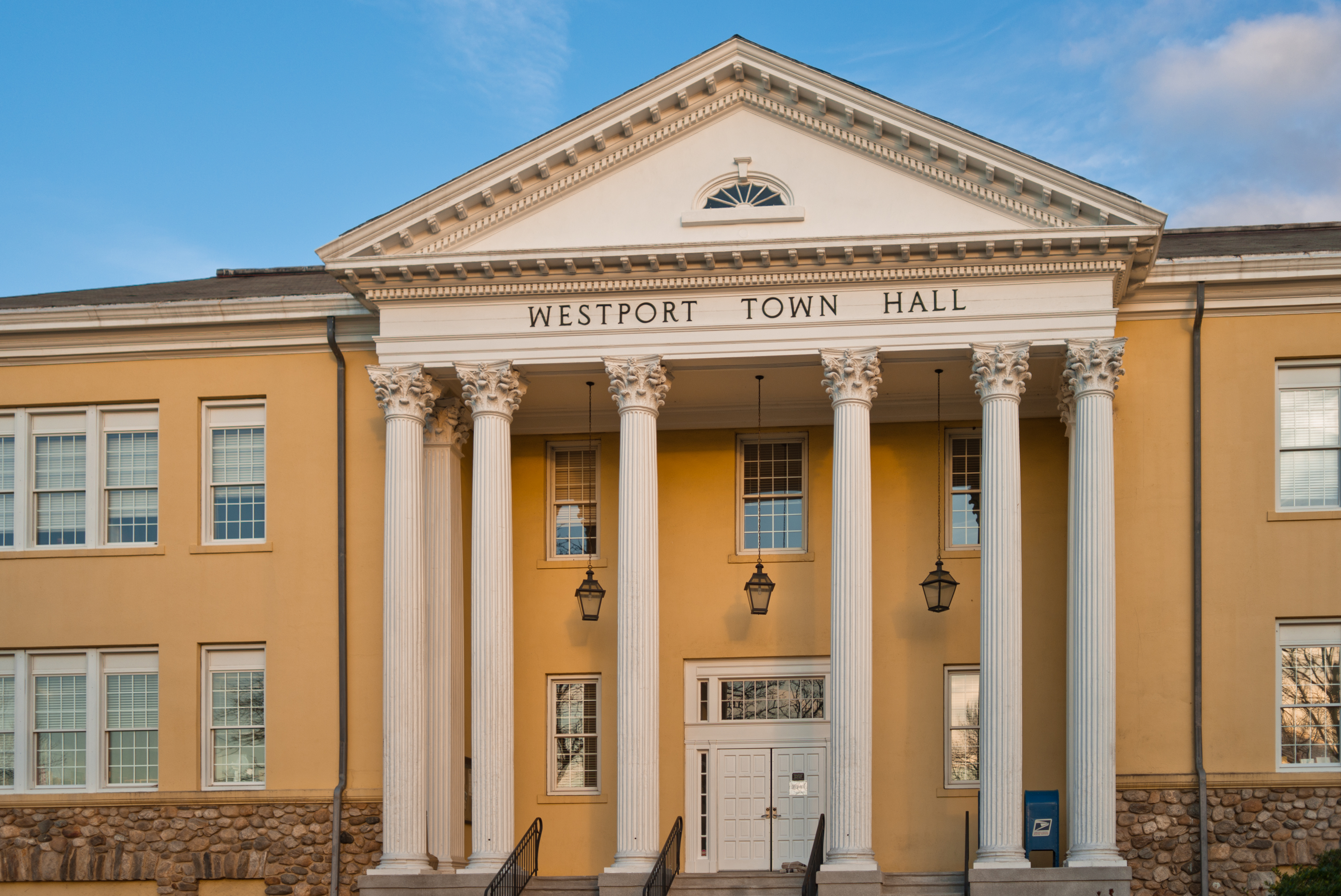 Westport Town Hall, Myrtle Avenue, Westport, CT 06880